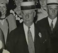 Al Smith arrives in Chicago for 1932 DNC